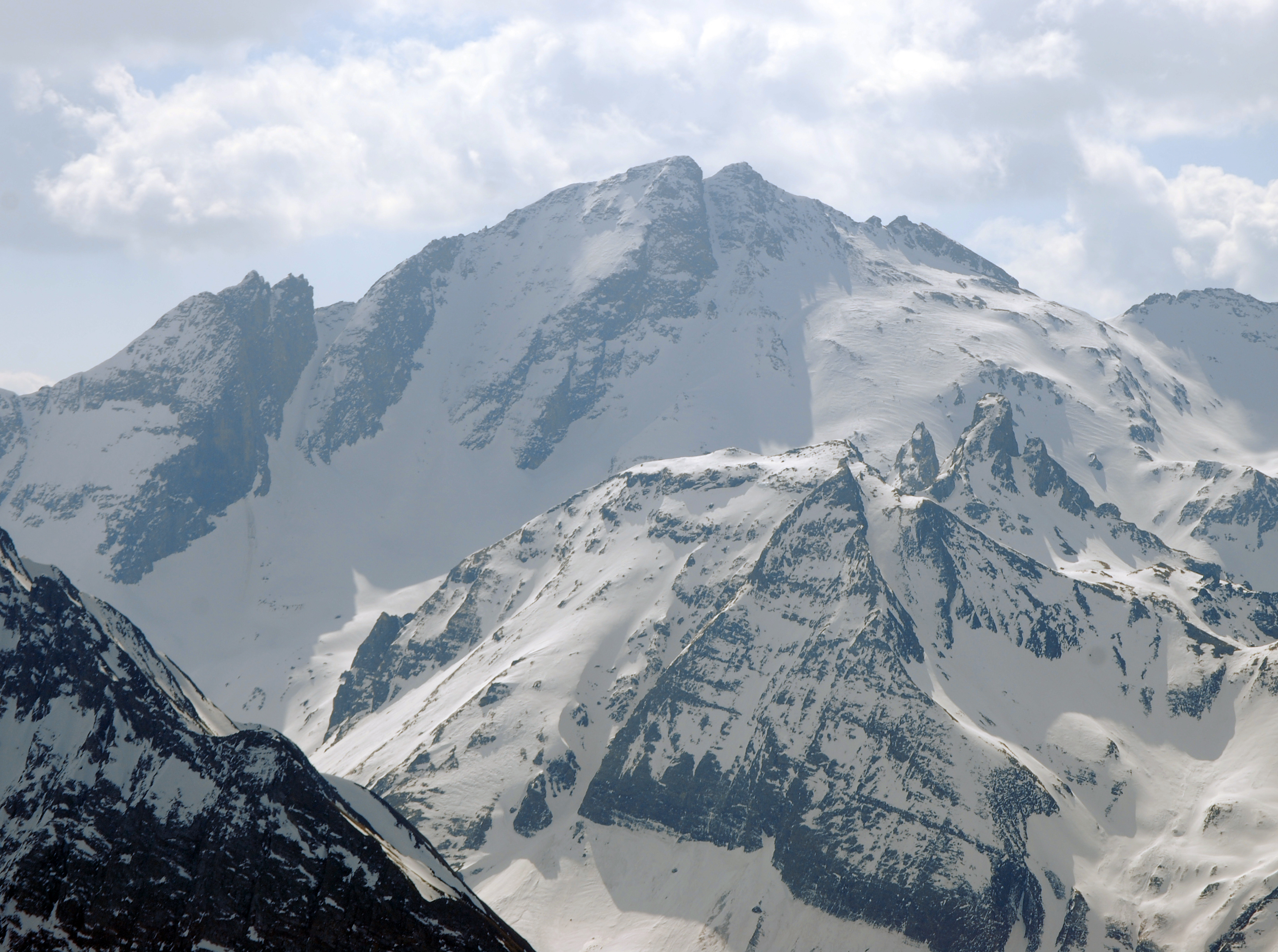 Wilde Kreuzspitze from N